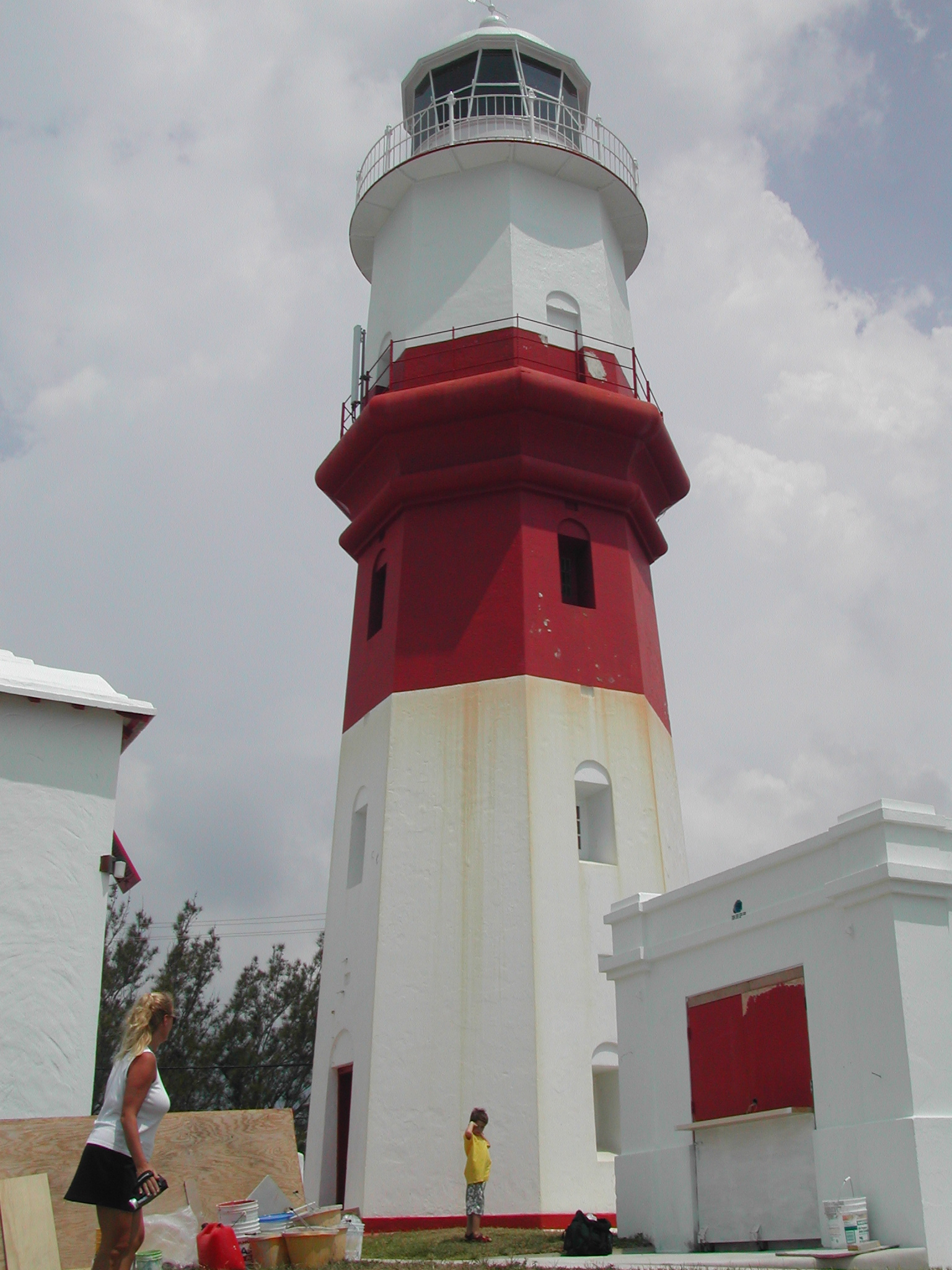 The Saint Davids Lighthouse